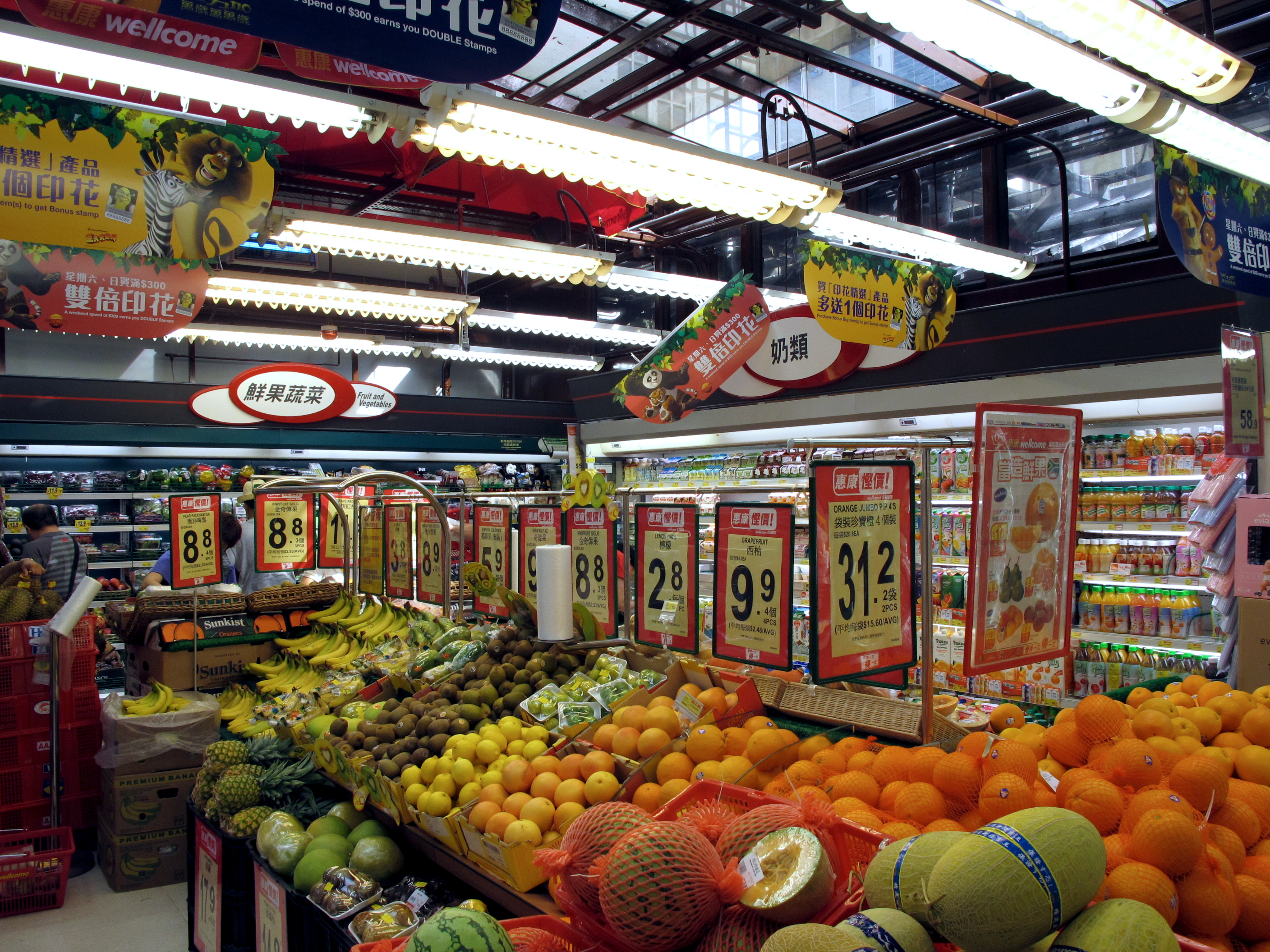 Old Stanley Police Station Wellcome Skylight